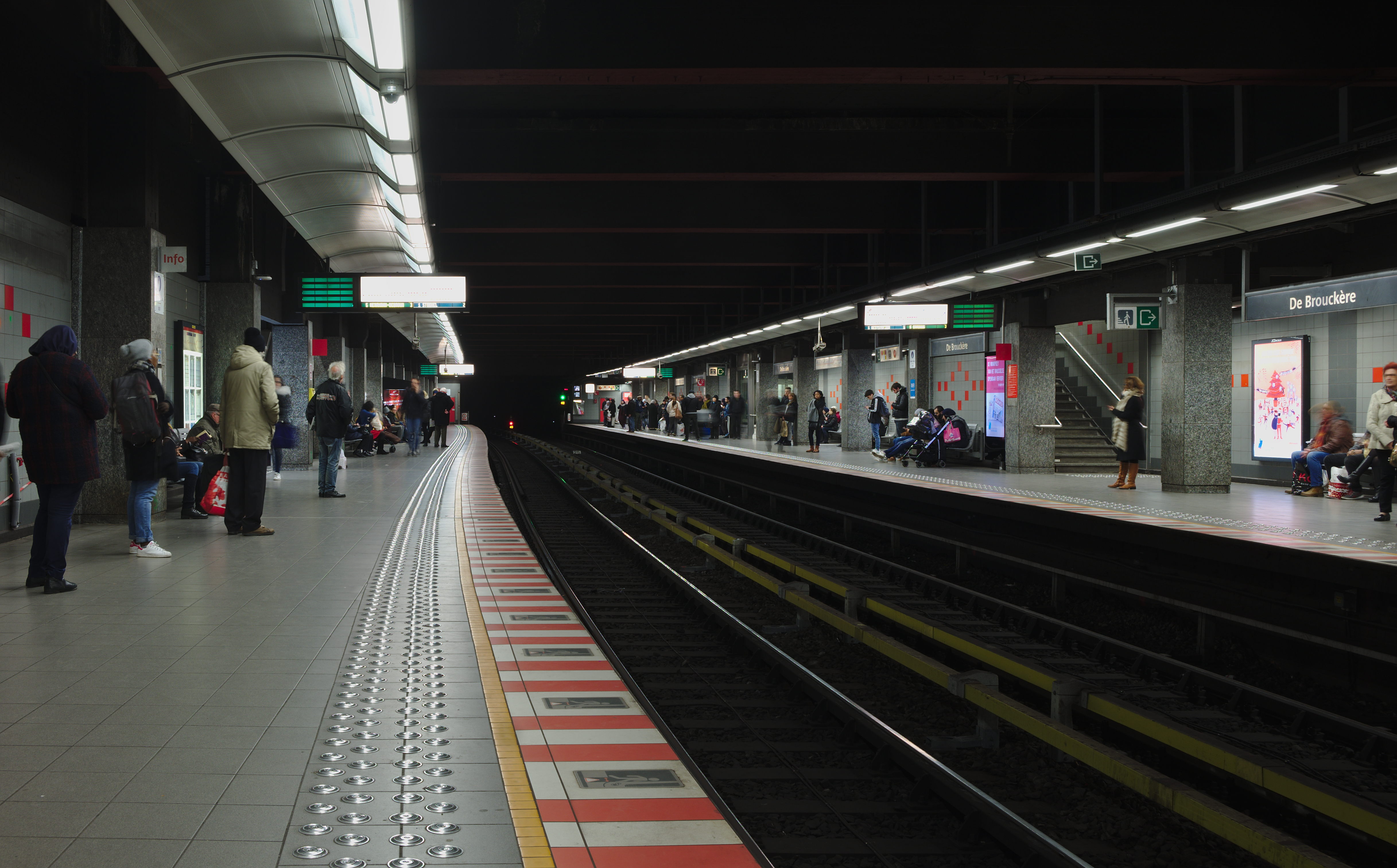 De Brouckere Metro Station in Brussels, Belgium - Metro platform waiting for Herrmann-Debroux-bound metro, with other platform visible